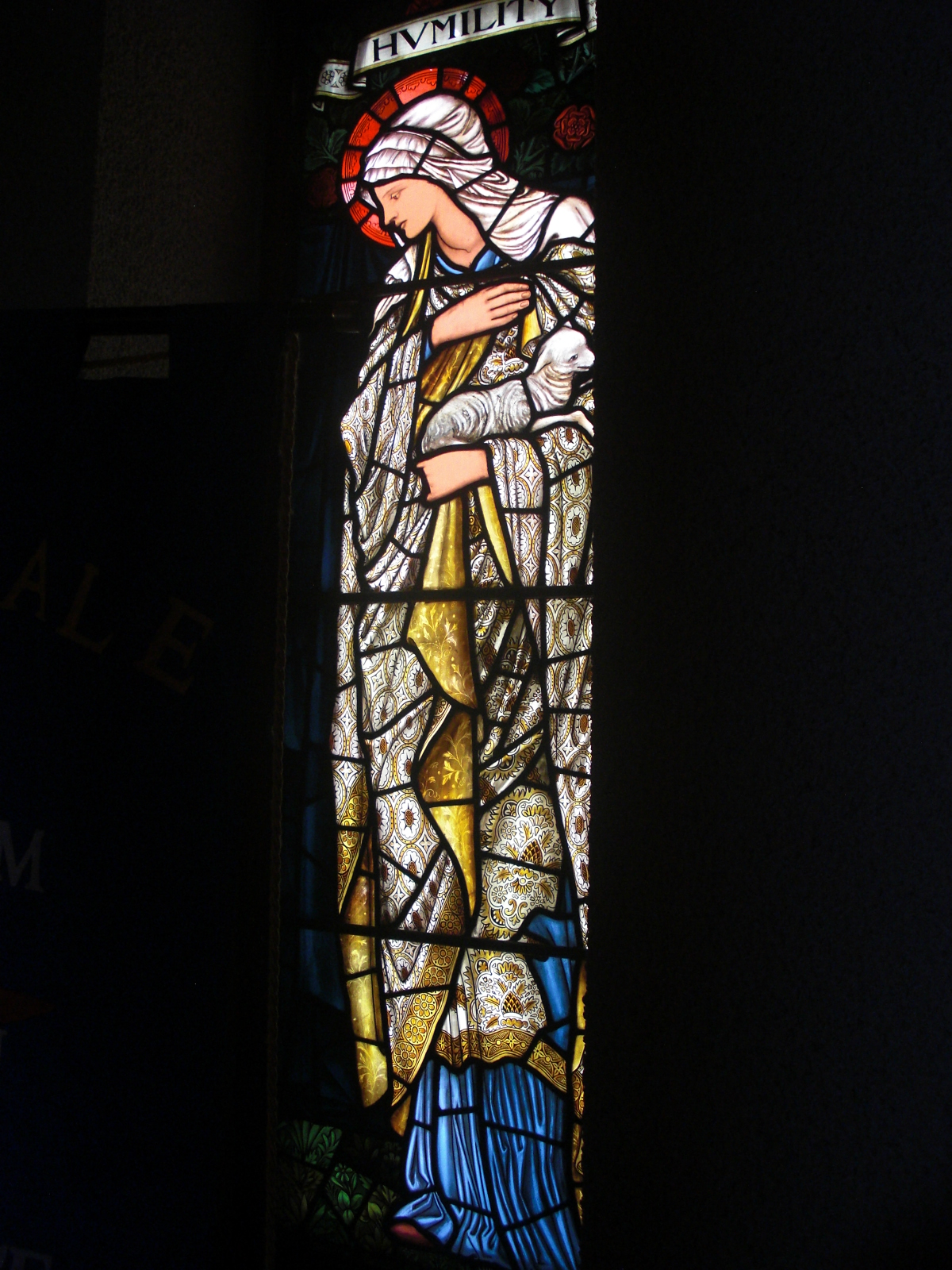 Representation of "Humility" in a stained-glass window designed by Edward Burne-Jones. In Rochdale (Clover Street) Unitarian Church. Manufactured by Morris &Co, Morton Abbey, Manchester, England.